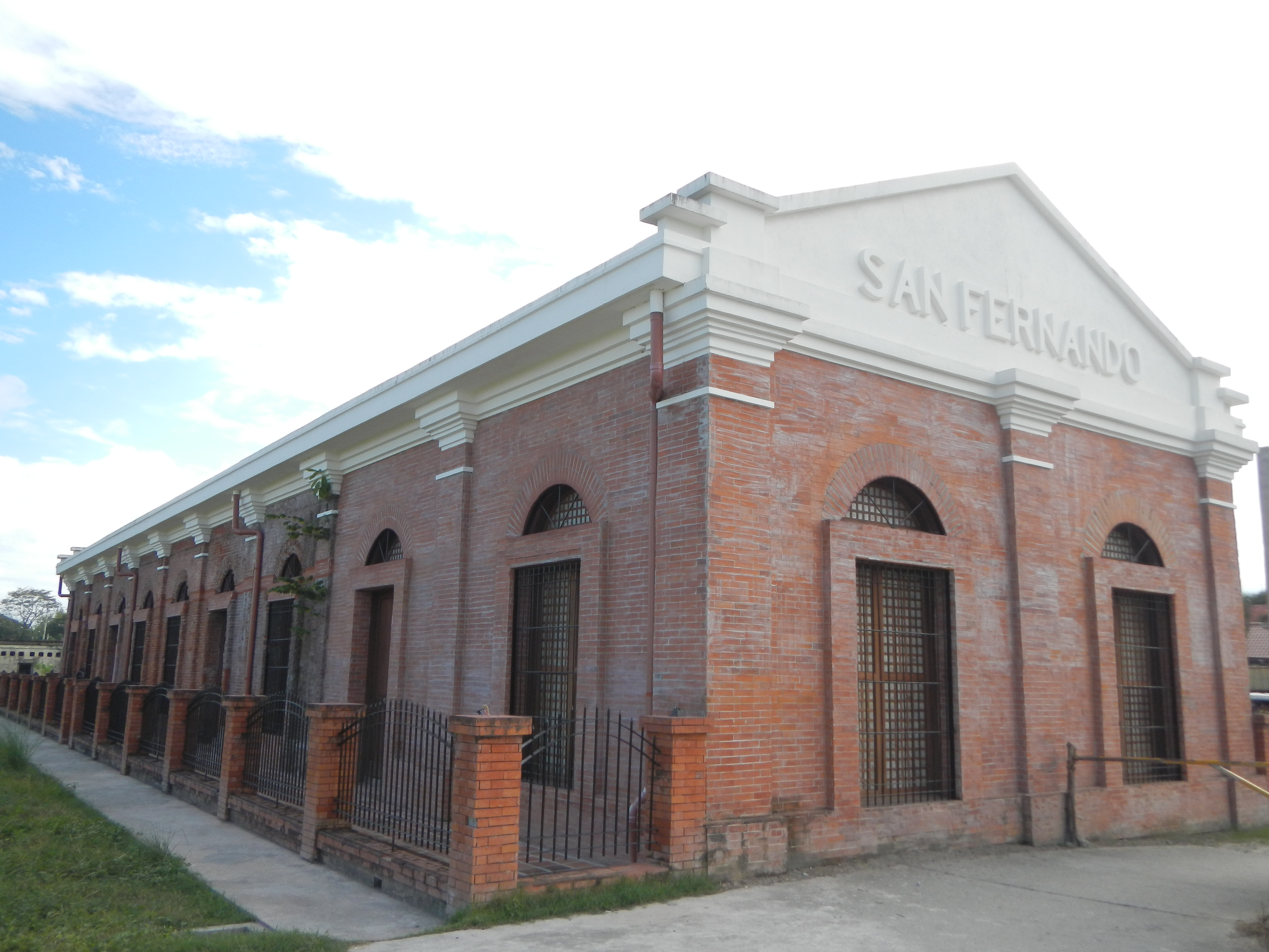 [1]San Fernando railway station (Pampanga)